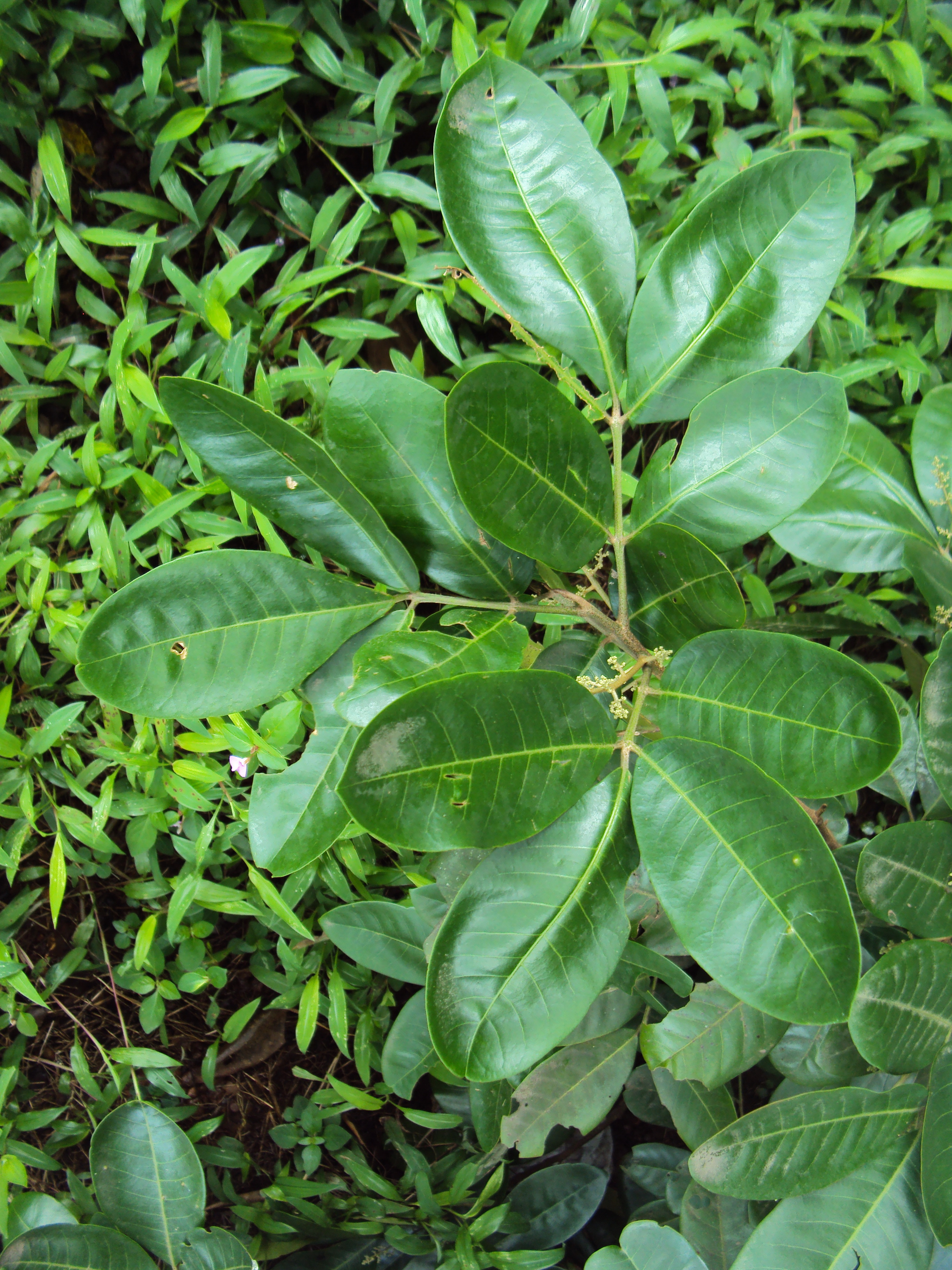 Aglaia roxburghiana